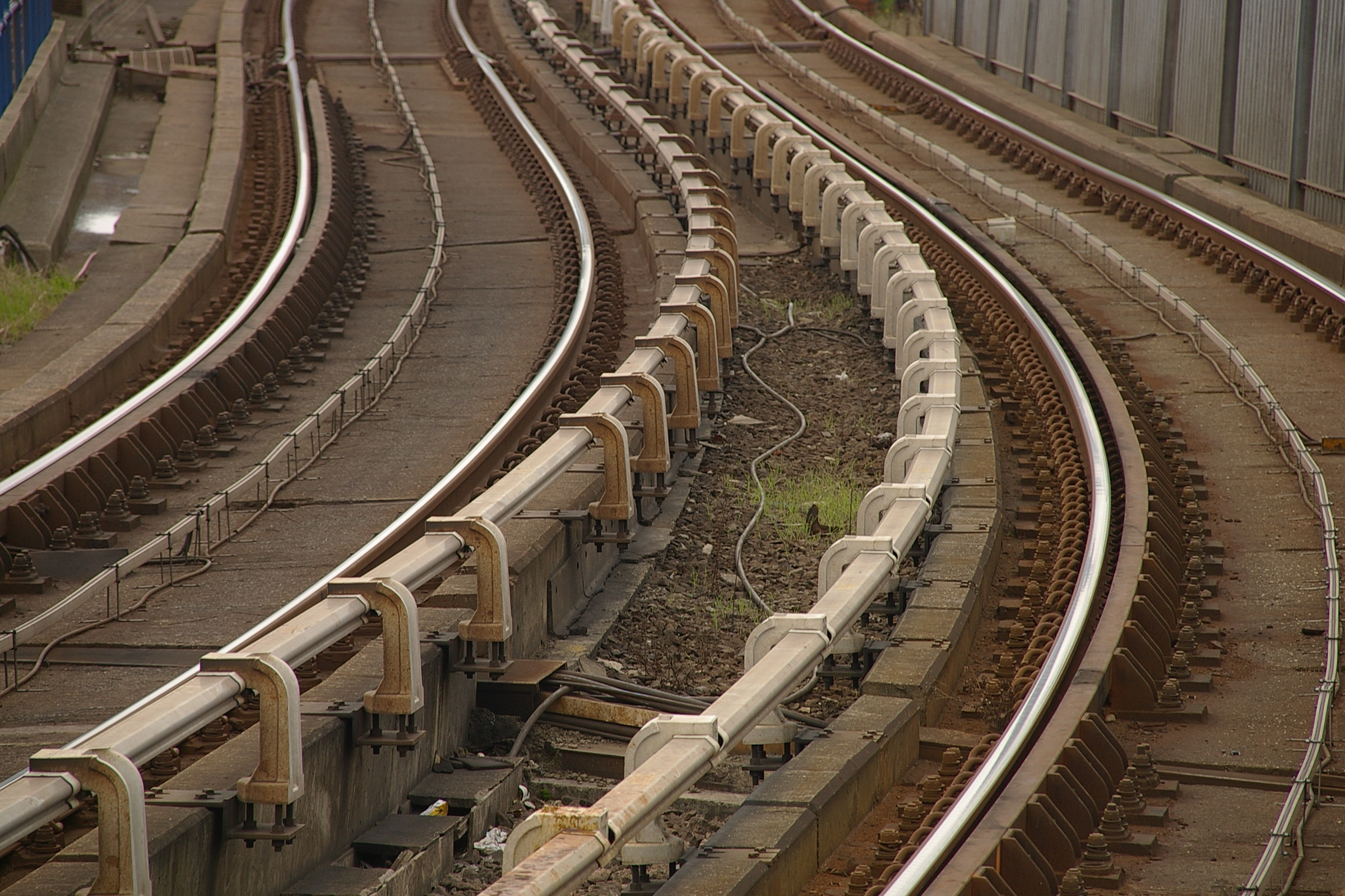 Docklands Light Railway tracks at Limehouse station.